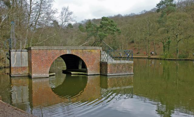 Stockgrove Country Park. The (artificial) lake was excavated in the 1920s and the boathouse was built soon afterwards. The boathouse used to have a room above with a thatched roof - but it burned down in the 1960s. Part of the drawbridge mechanism remains on the left hand side.